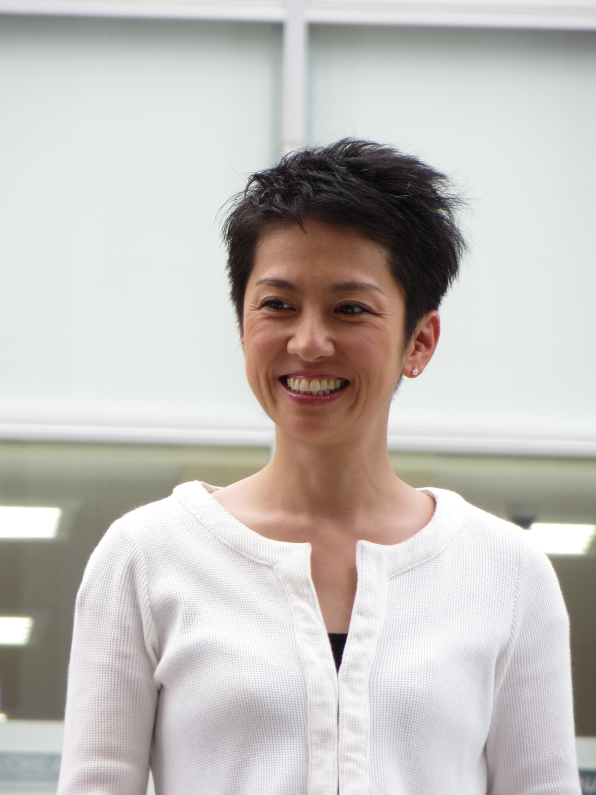 Renhō (Member of the House of Councillors).